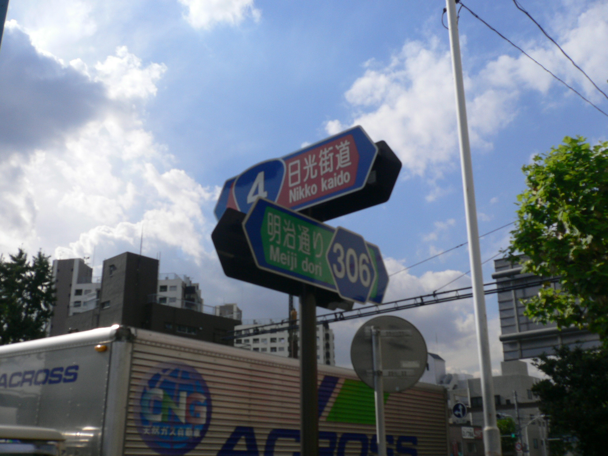 Minowa (日光街道・明治通り), Arakawa W, Tokyo M.